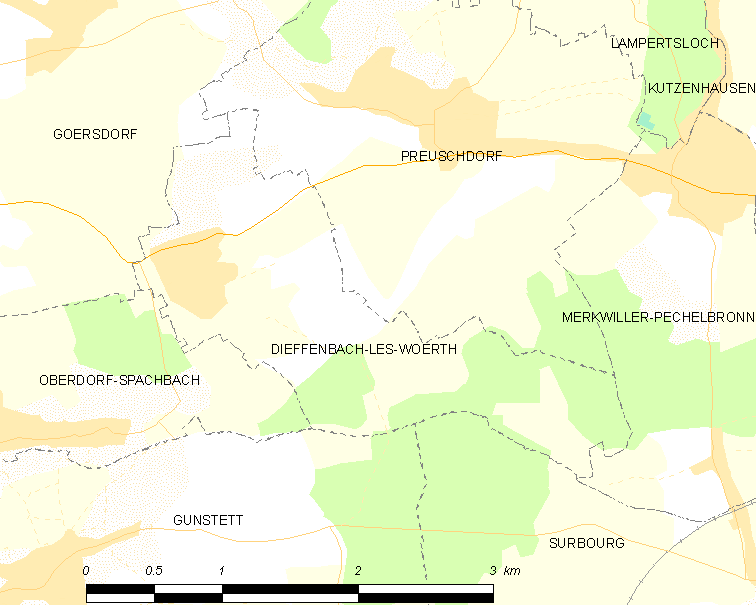 Map of French municipality